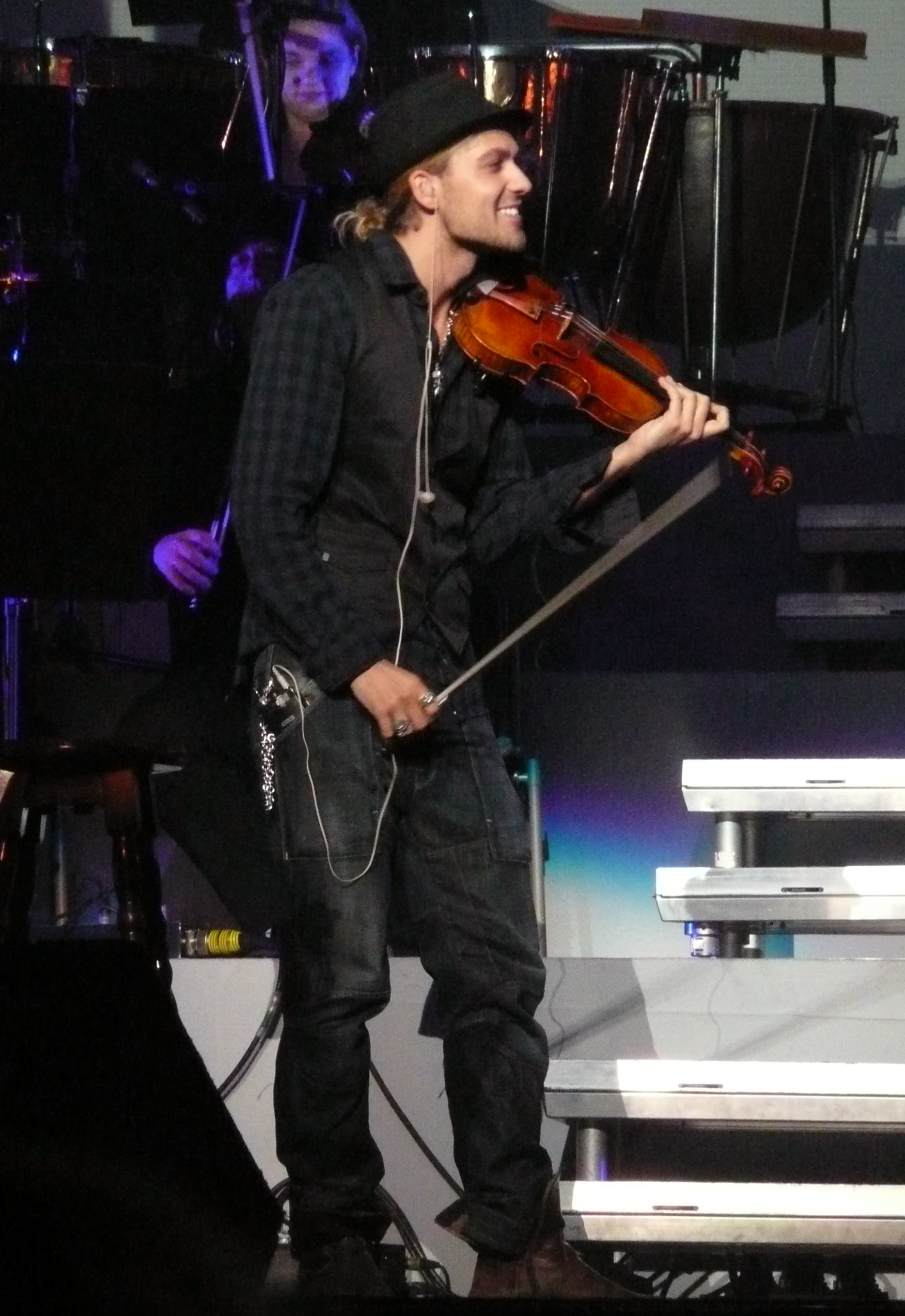 David Garrett performing in Cologne on 15 January 2010